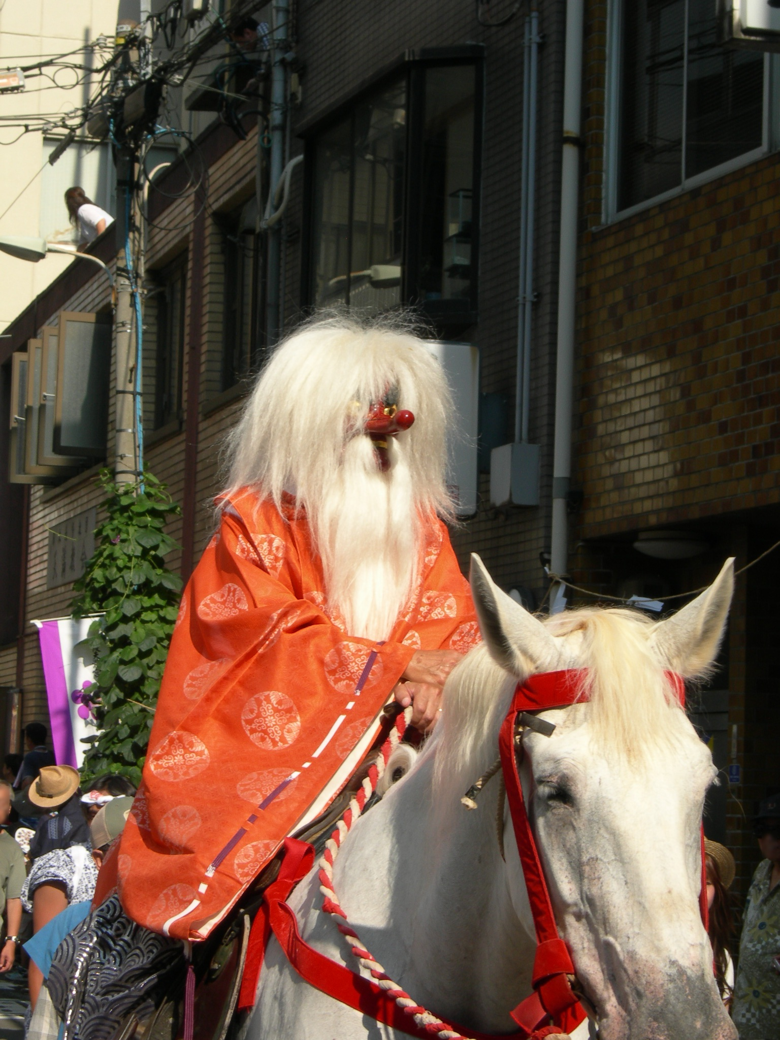 Sarutahiko Ōkami in Osaka Tenjinmatsuri